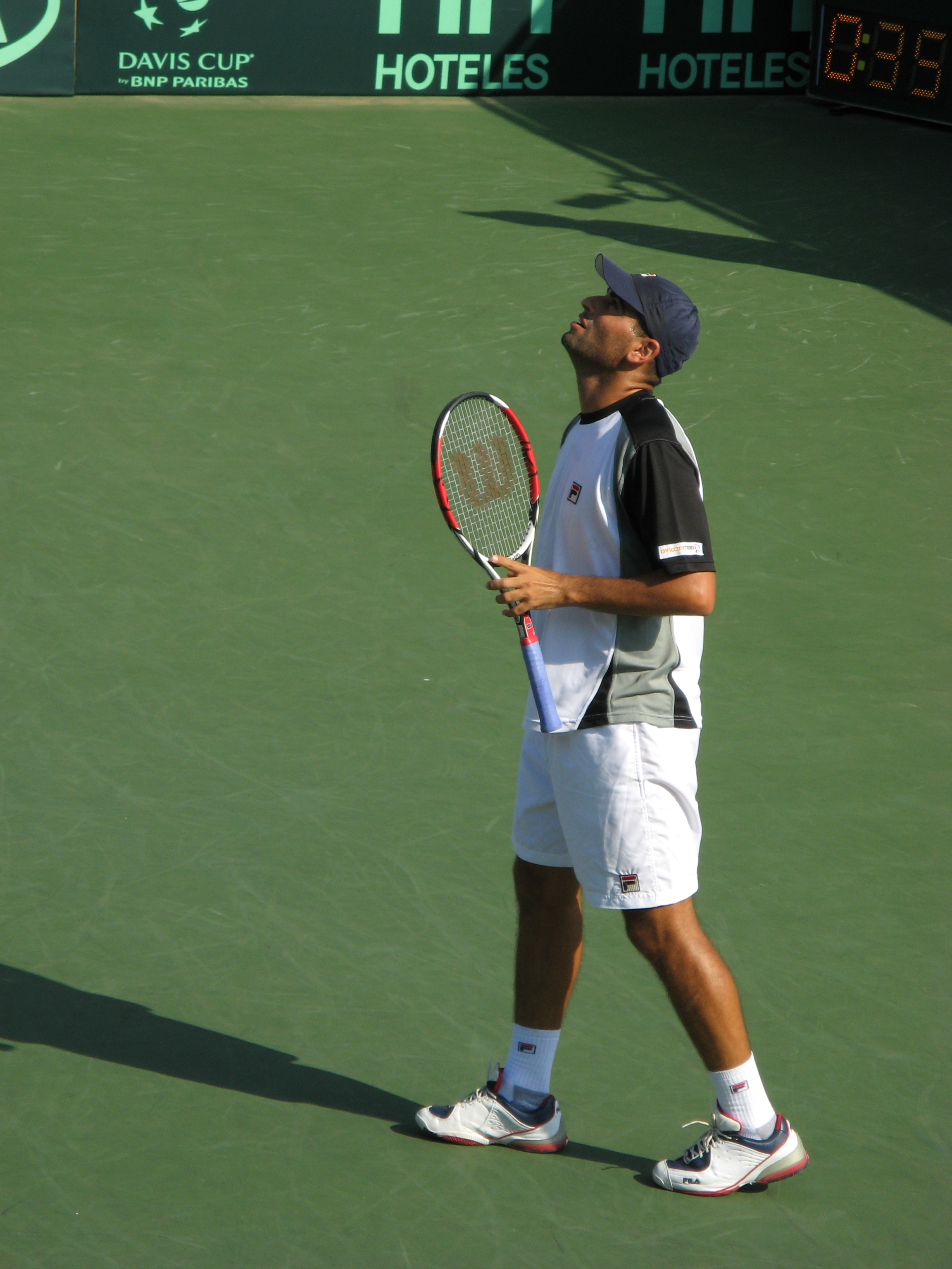 Israeli Tennis player Andi Ram during a Davis Cup match against Mauricio Echazu & Matias Silva of Peru